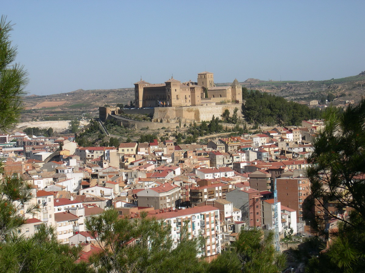 View of Alcañiz, Spain, with the castle in the background.